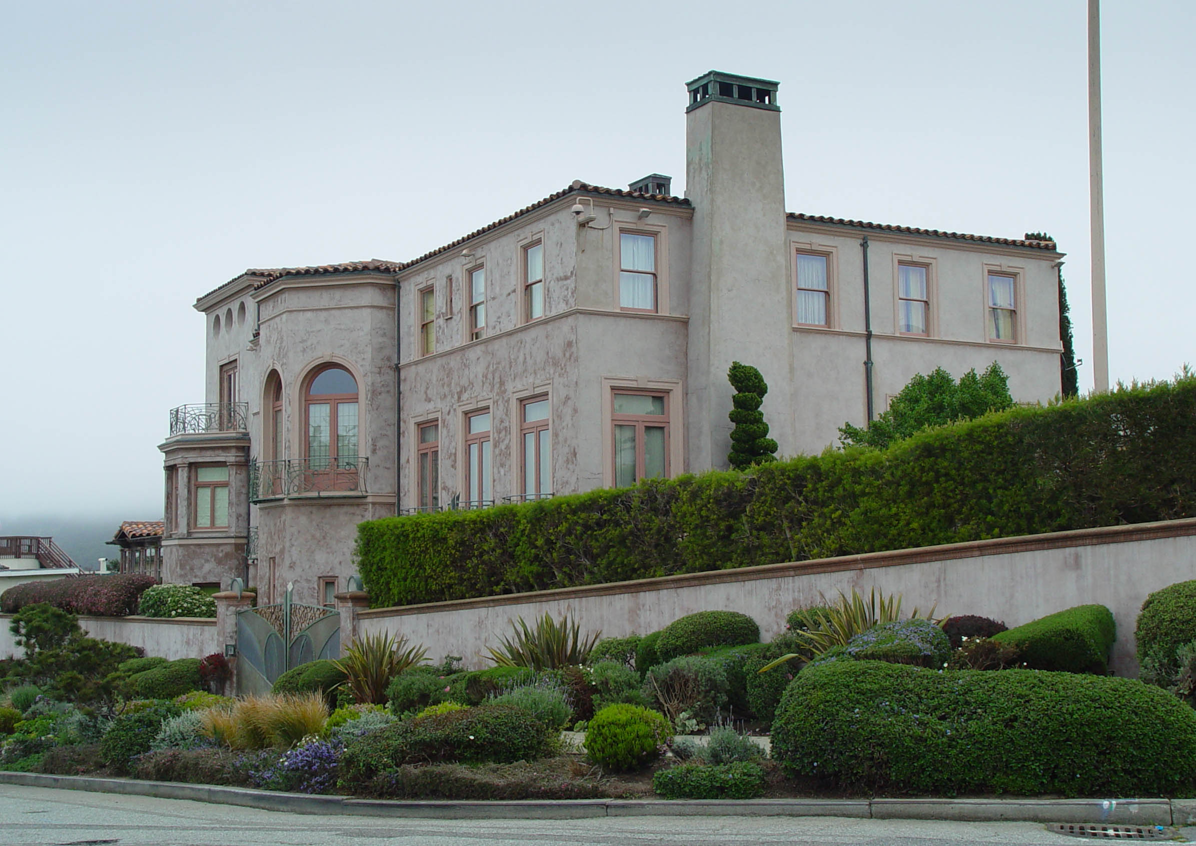 The residence of comedian Robin Williams in Sea Cliff, San Francisco